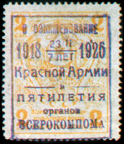 Revenue stamp of voluntary gathering of the All-Russia committee of the help to invalids of war, 1925